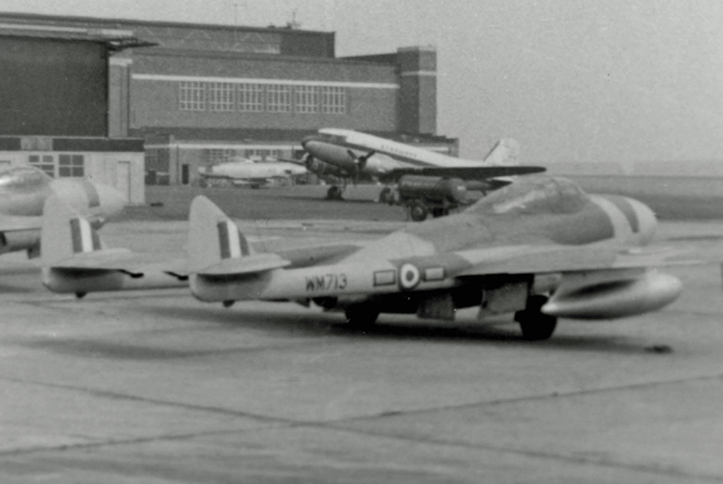 De Havilland DH.113 Vampire NF.10 of No. 25 Squadron RAF in 1954